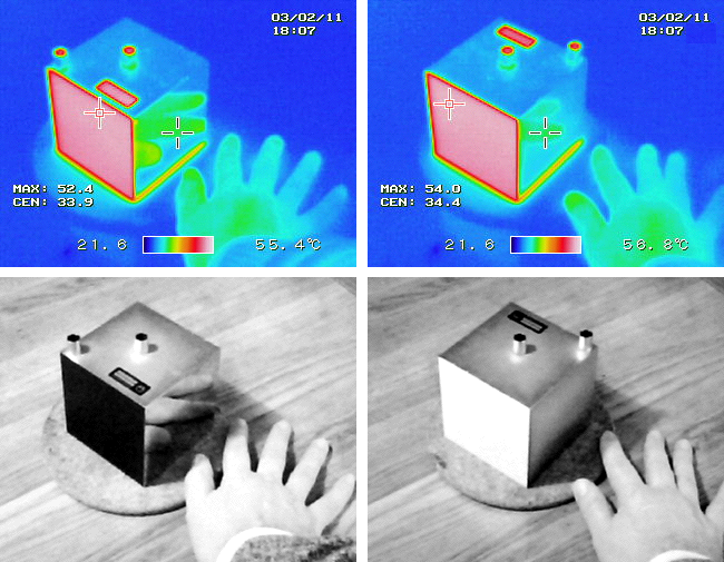 Thermal images of two faces of Leslie's cube taken with an infrared camera, compared with conventional black & white photographs of the cube. The four faces of the cube are at the same temperature. The face that has been painted black emits thermal radiation strongly. The polished face of the aluminum cube emits much more weakly, and the reflected image of the experimenter's warm hand is clear. This cube is made by 3B Scientific, Inc. (See Leslie's Cube - Instruction Sheet (January 2011). Retrieved on 2014-08-01.)